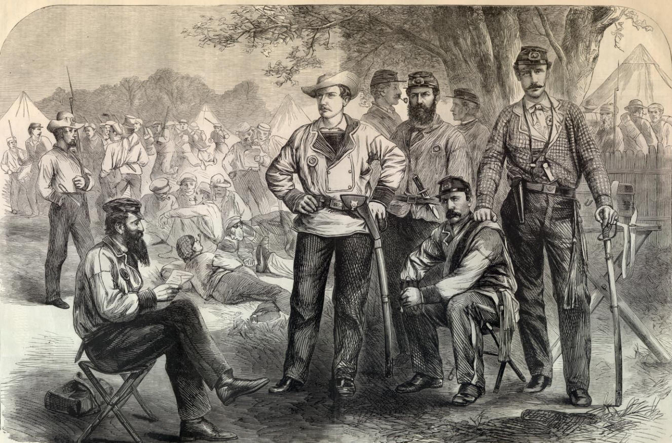 Colonel William Wilson and his staff, Harper's Weekly, May 18, 1861